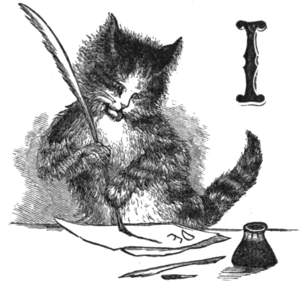 Letters From a Cat Introduction Letter I